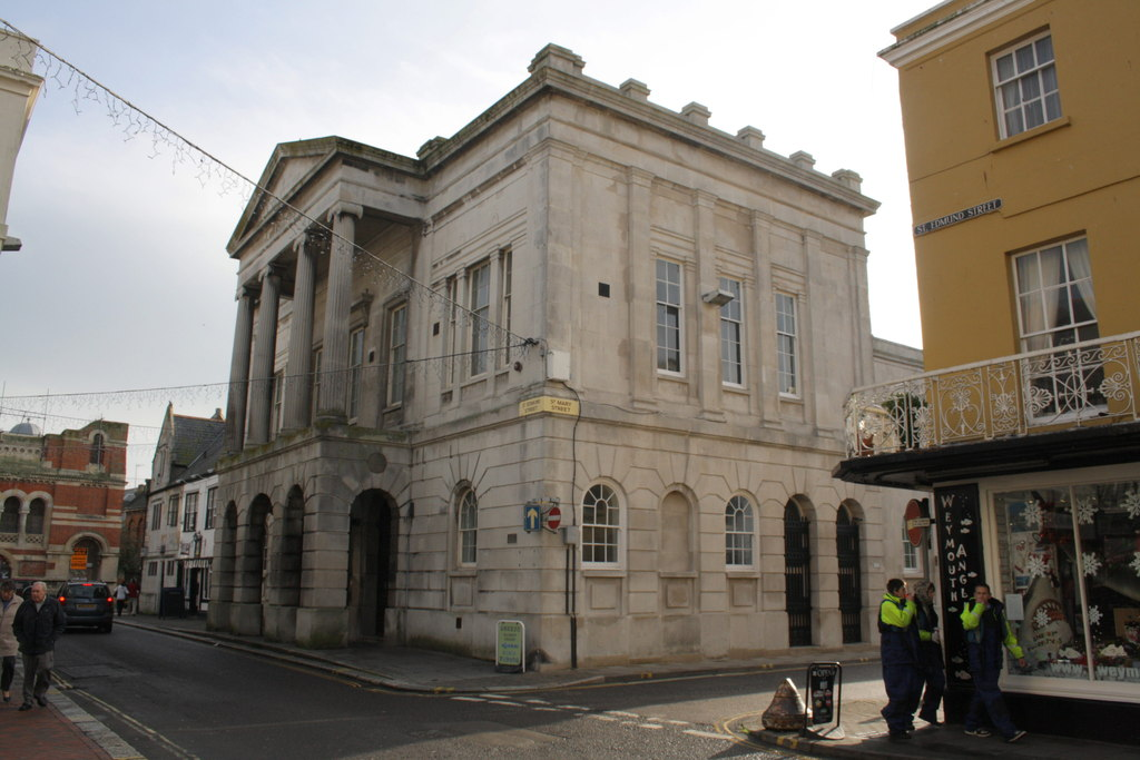 Weymouth Guildhall, Dorset